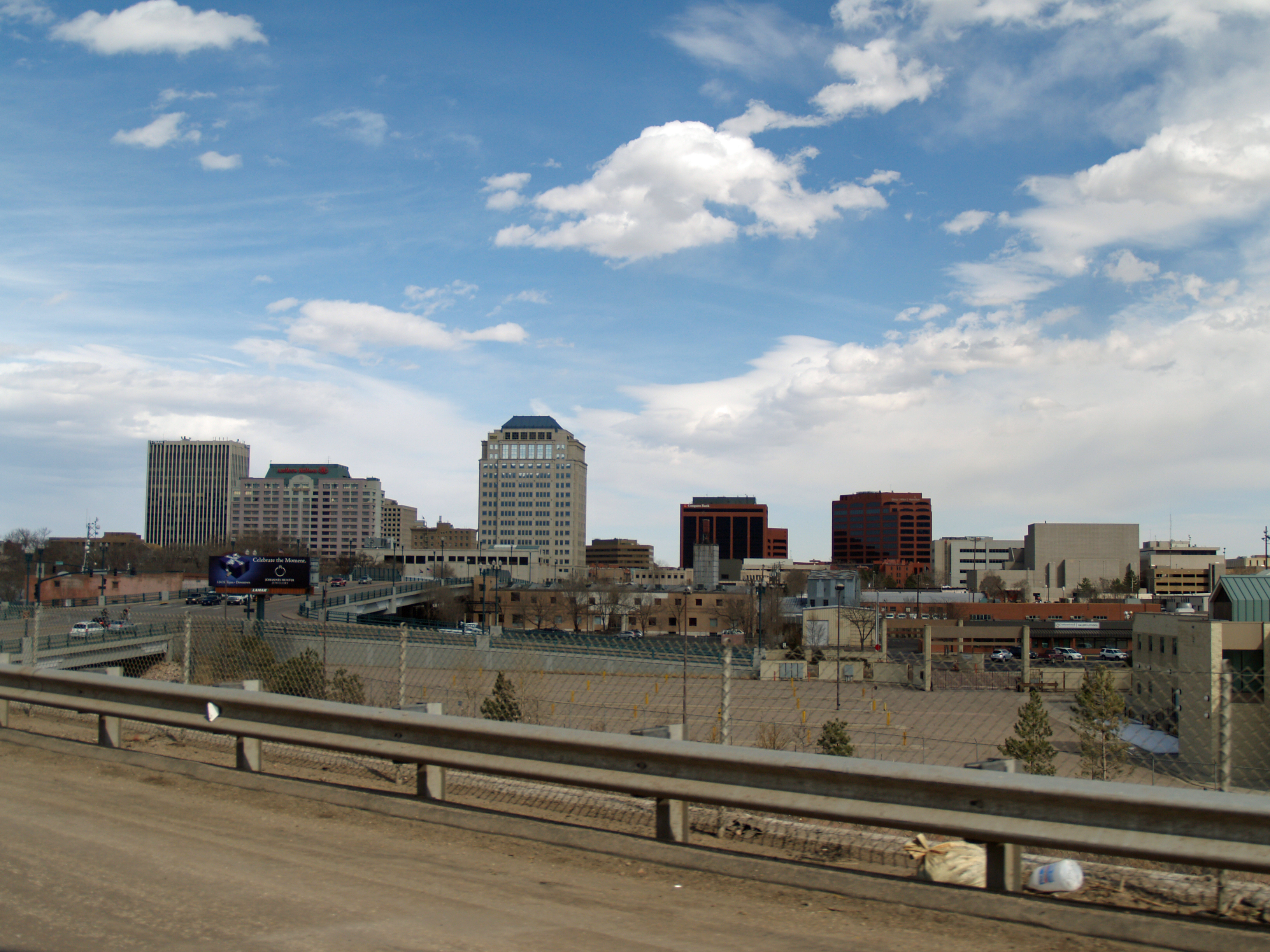 Downtown Colorado Springs, Colorado.